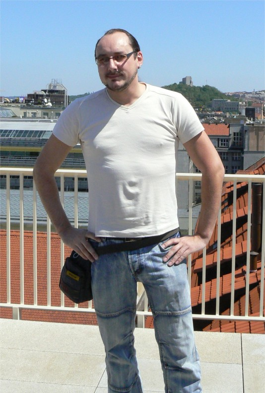 Marian Vojtko